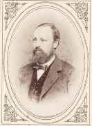 Plate 05 Photograph album of German and Austrian scientists. Wien II (Vienna II): Alois F. Rogenhofer.